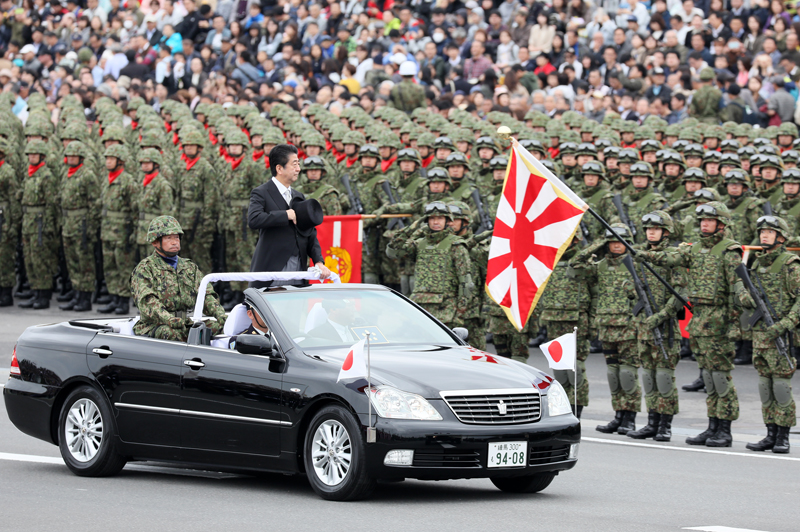 Prime Minister of Japan Shinzō Abe reviewing a parade of the Self-Defense Forces.